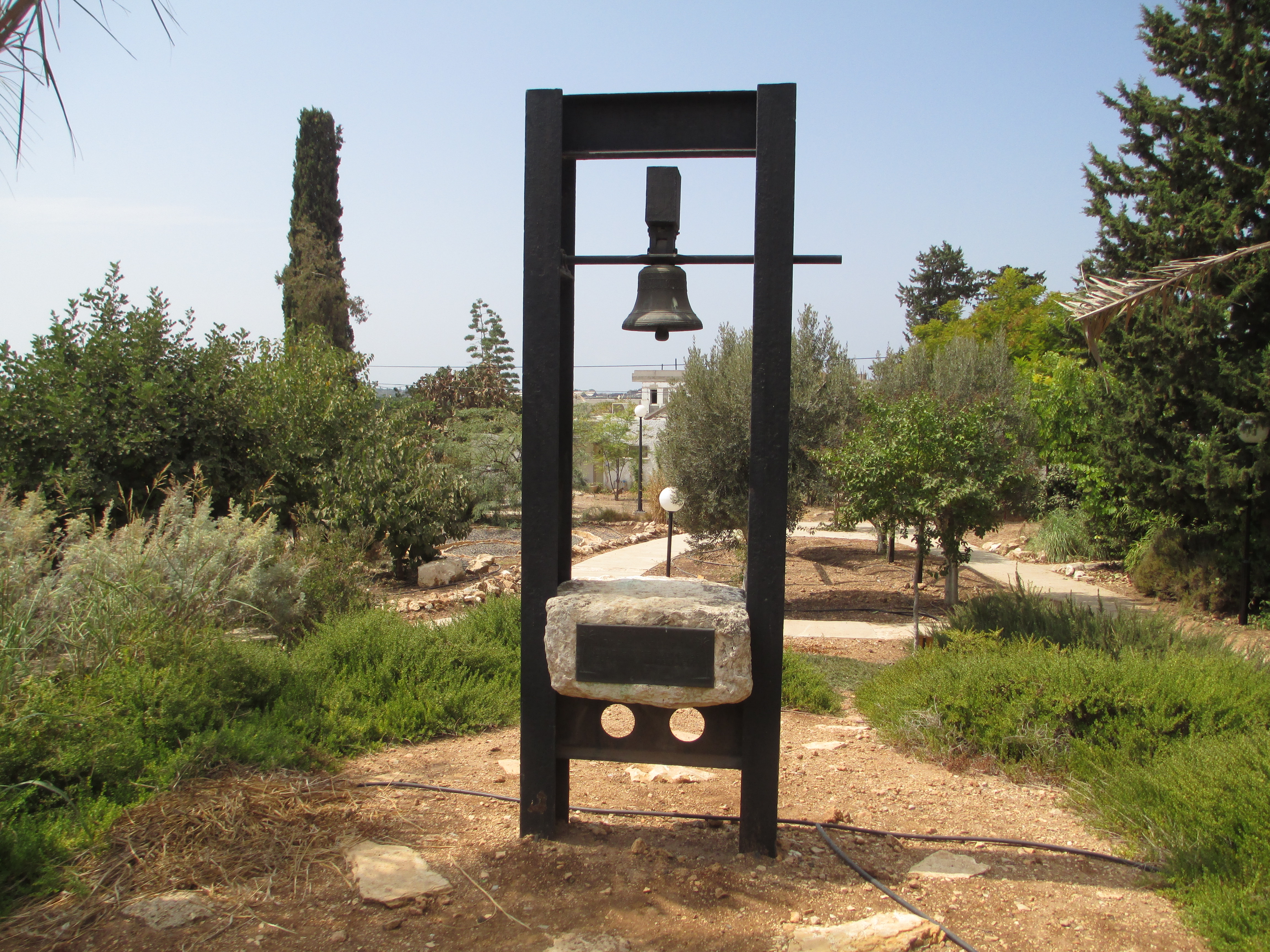 Seven Species garden in Nes Ammim - The Bell